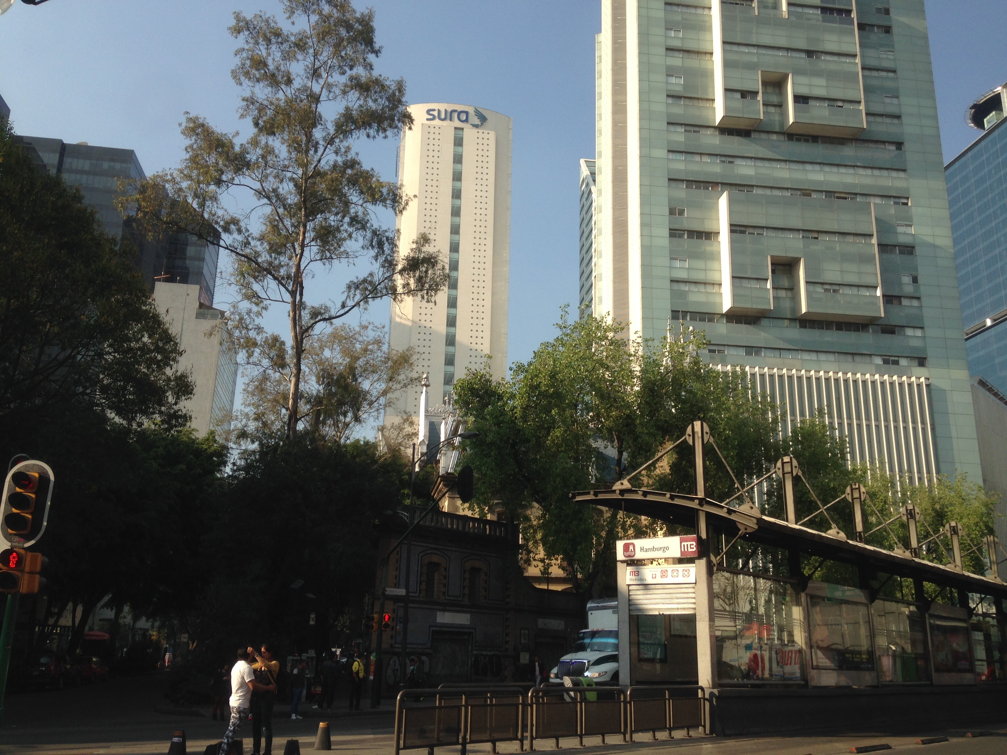 Reforma Buildings (Reforma 222 Towers 2 and 3) seen from Insurgentes Avenue, Mexico City's Zona Rosa